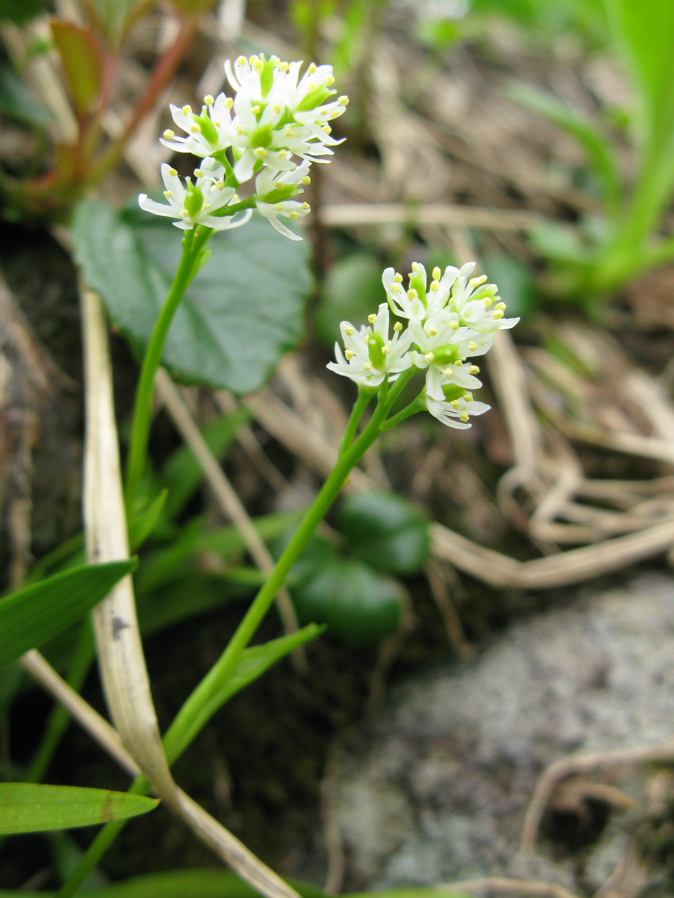 Tofieldia okuboi, Mount Gassan, Yamagata pref., Japan